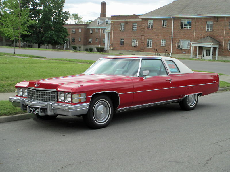 This is a picture of a vehicle (name of it is on the file name).